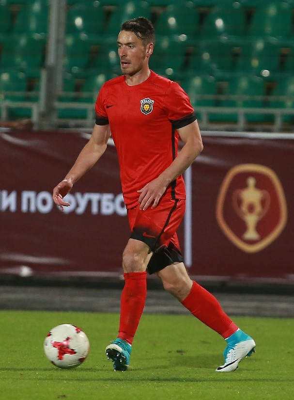 Igor Lebedenko with FC Ararat Moscow in a Russian Cup game against FC SKA-Khabarovsk.